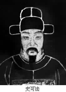 Shi Kefa (1601-1645)